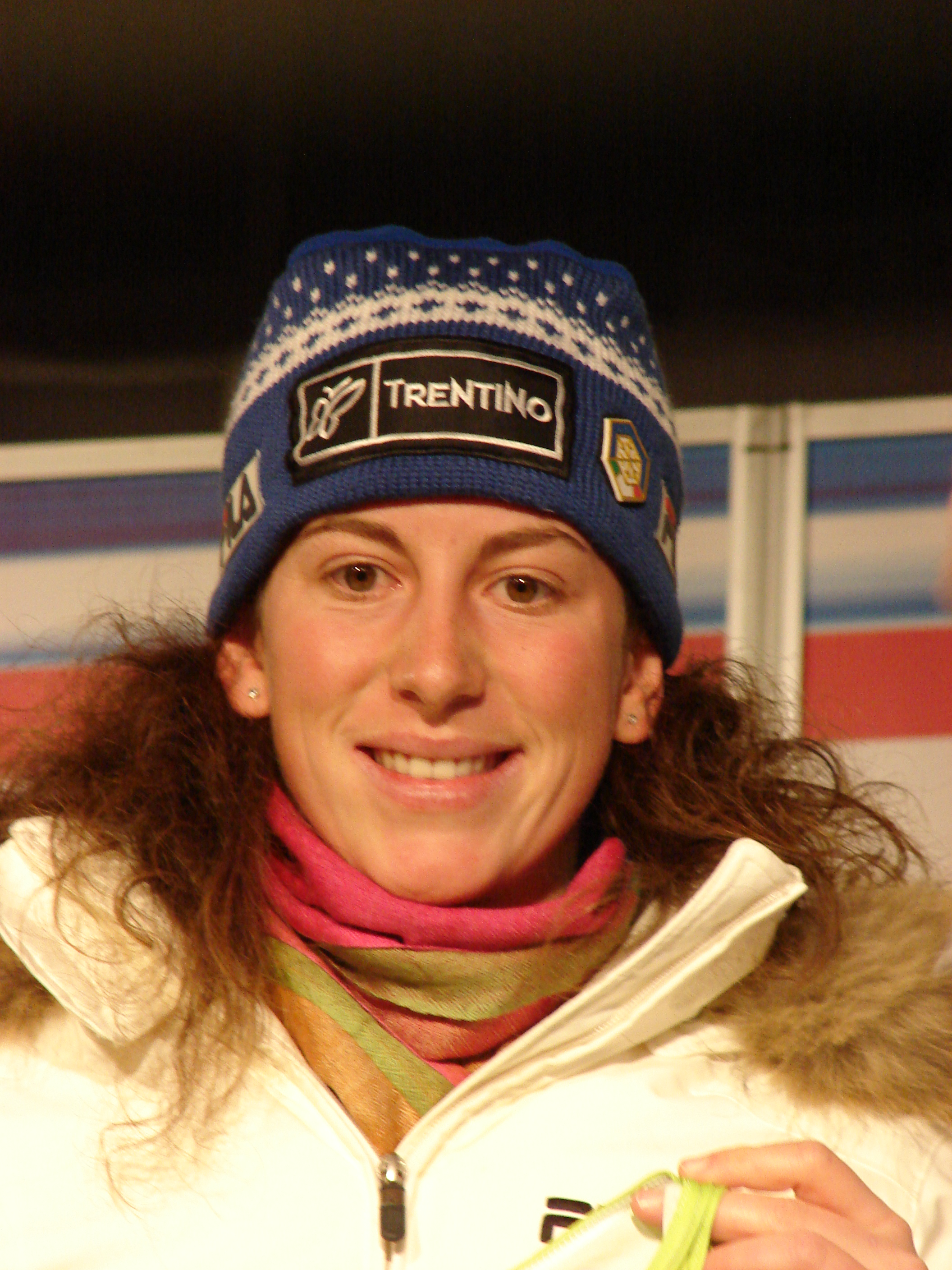 Chiara Costazza during the public draw for the Slalom in Semmering, Austria on Dec. 29, 2006.